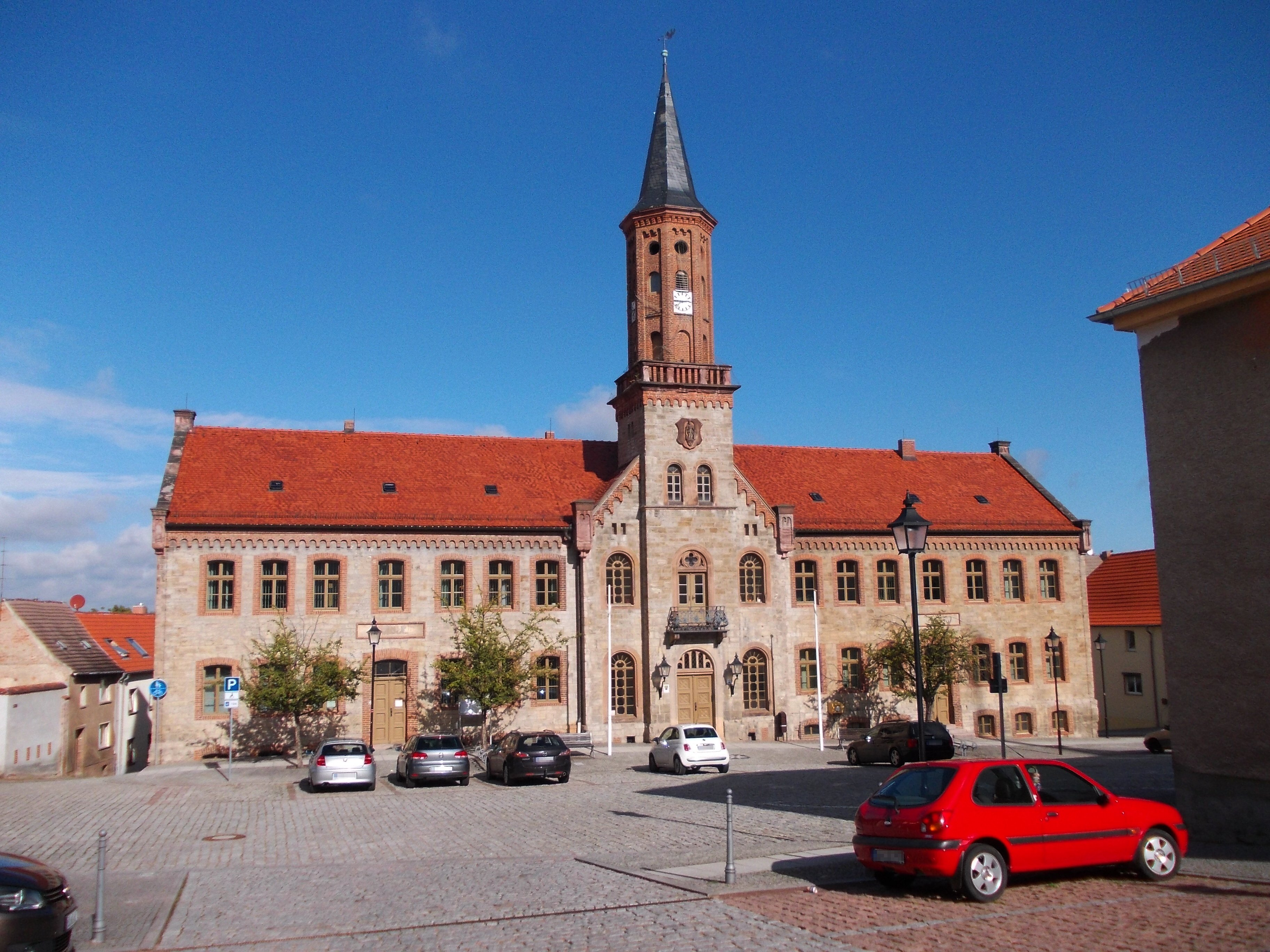 Town hall in Könnern (district of Salzlandkreis, Saxony-Anhalt)